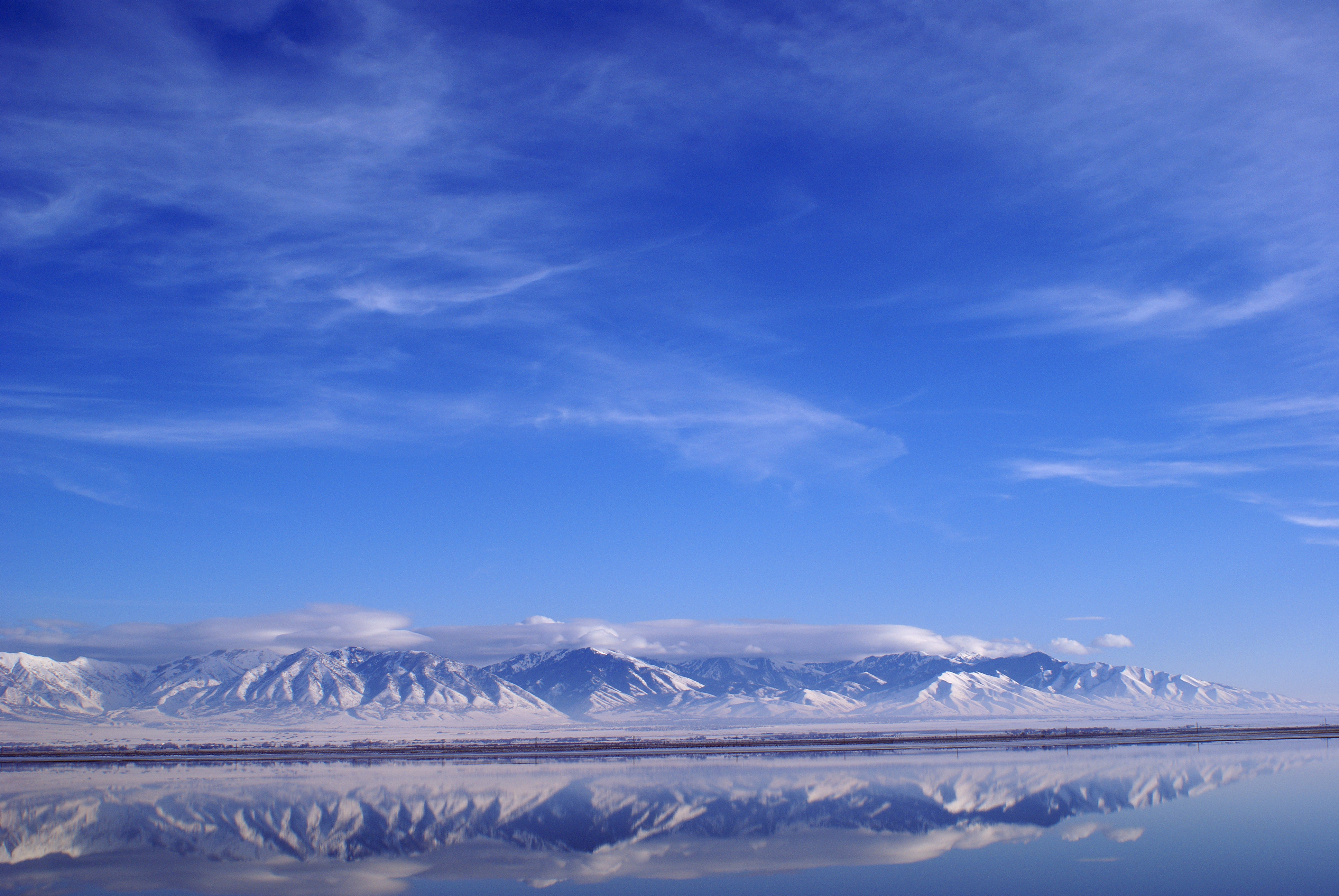 Oquirrh Mountains outside of the Great Salt Lake Desert in Utah.